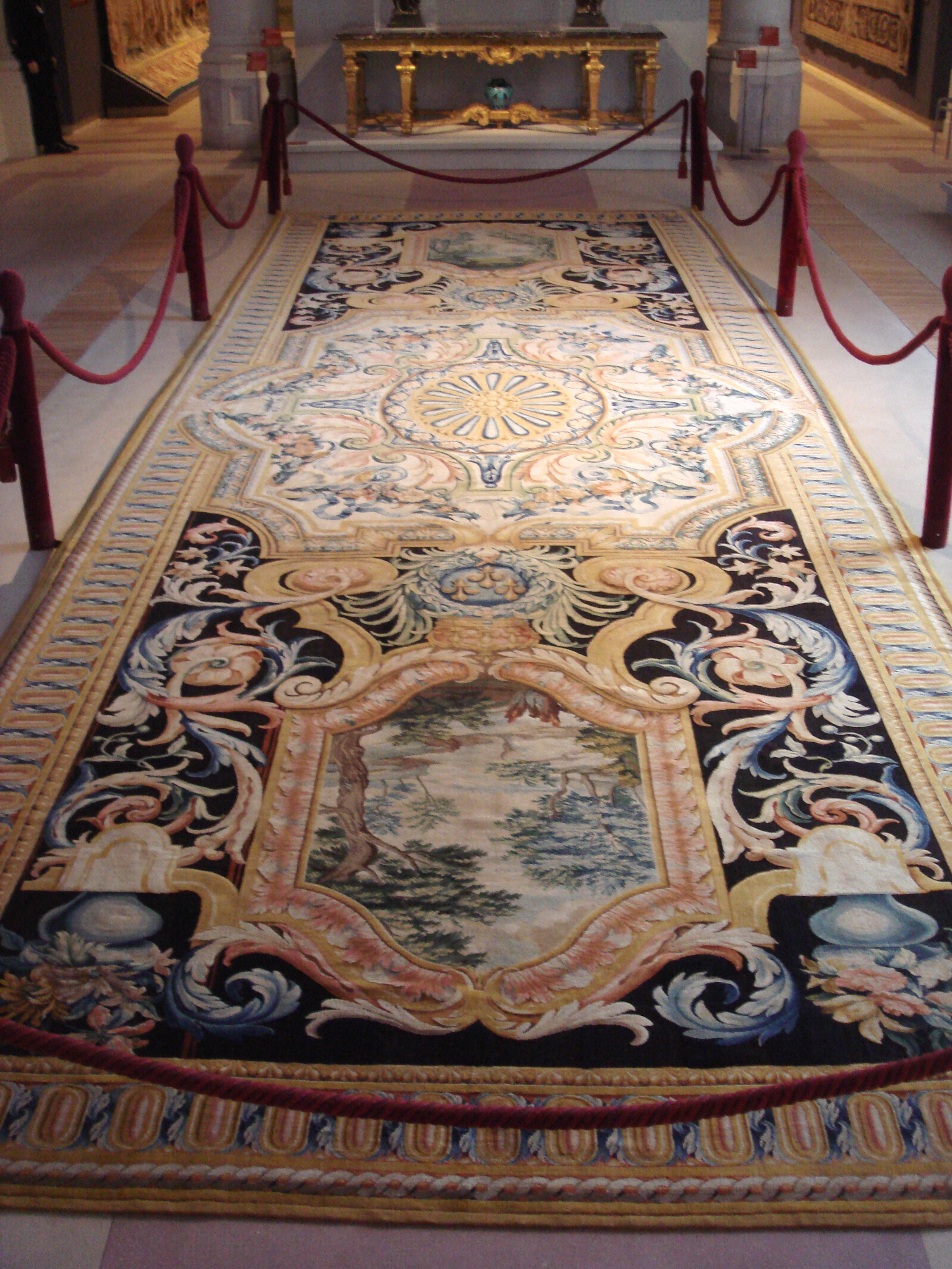 Savonnerie manufactory: carpet, part of a range of 104 carpets commissioned by Louis XIV and allocated to decorate the Grande Galerie at the Palais du Louvre.